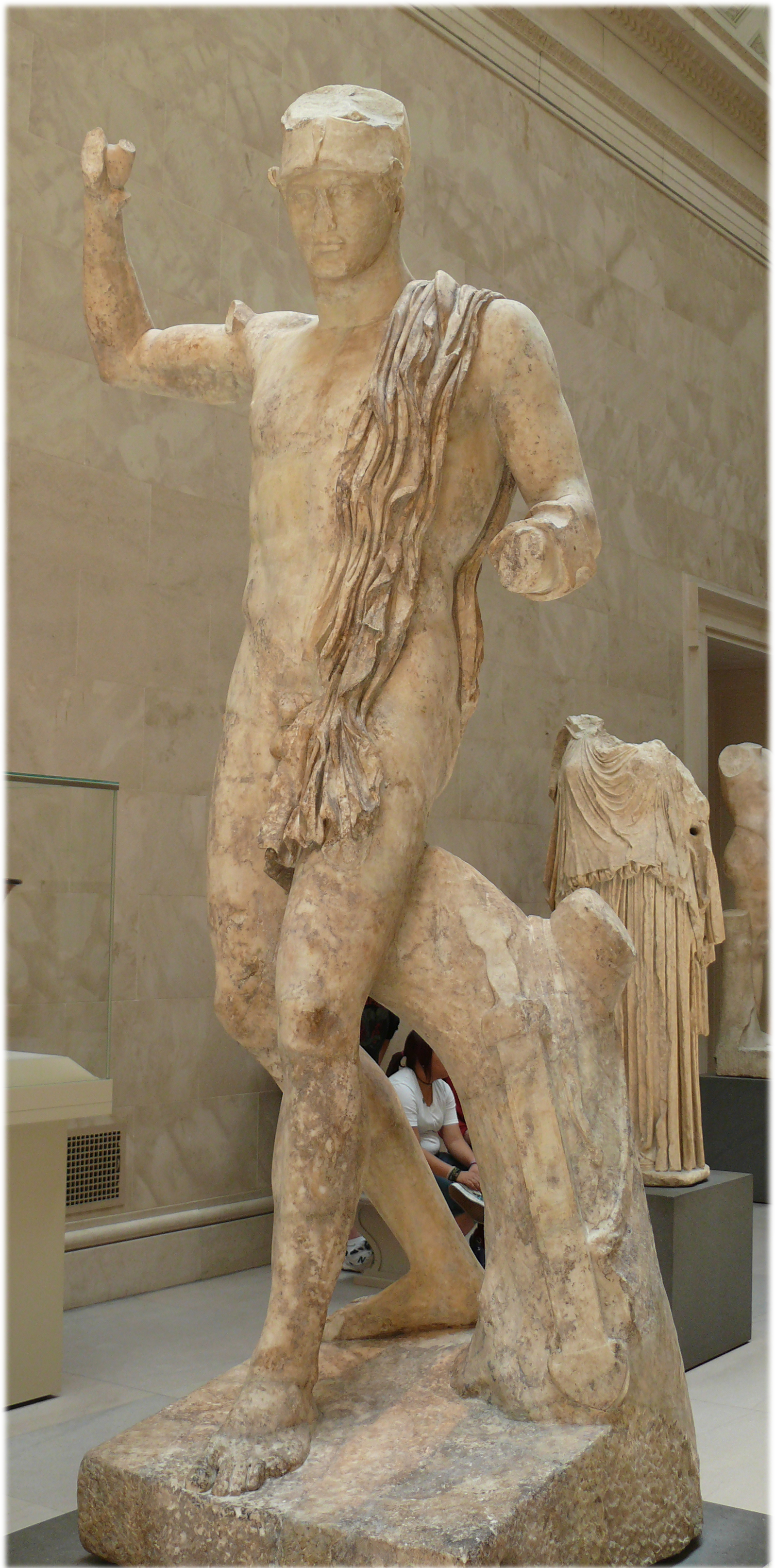 Marble statue of a wounded warrior in the Metropolitan Museum of Art, New York, NY. Roman, Antonine period ca. 138-181 AD Copy of a bronze Greek statue ca. 450 AD